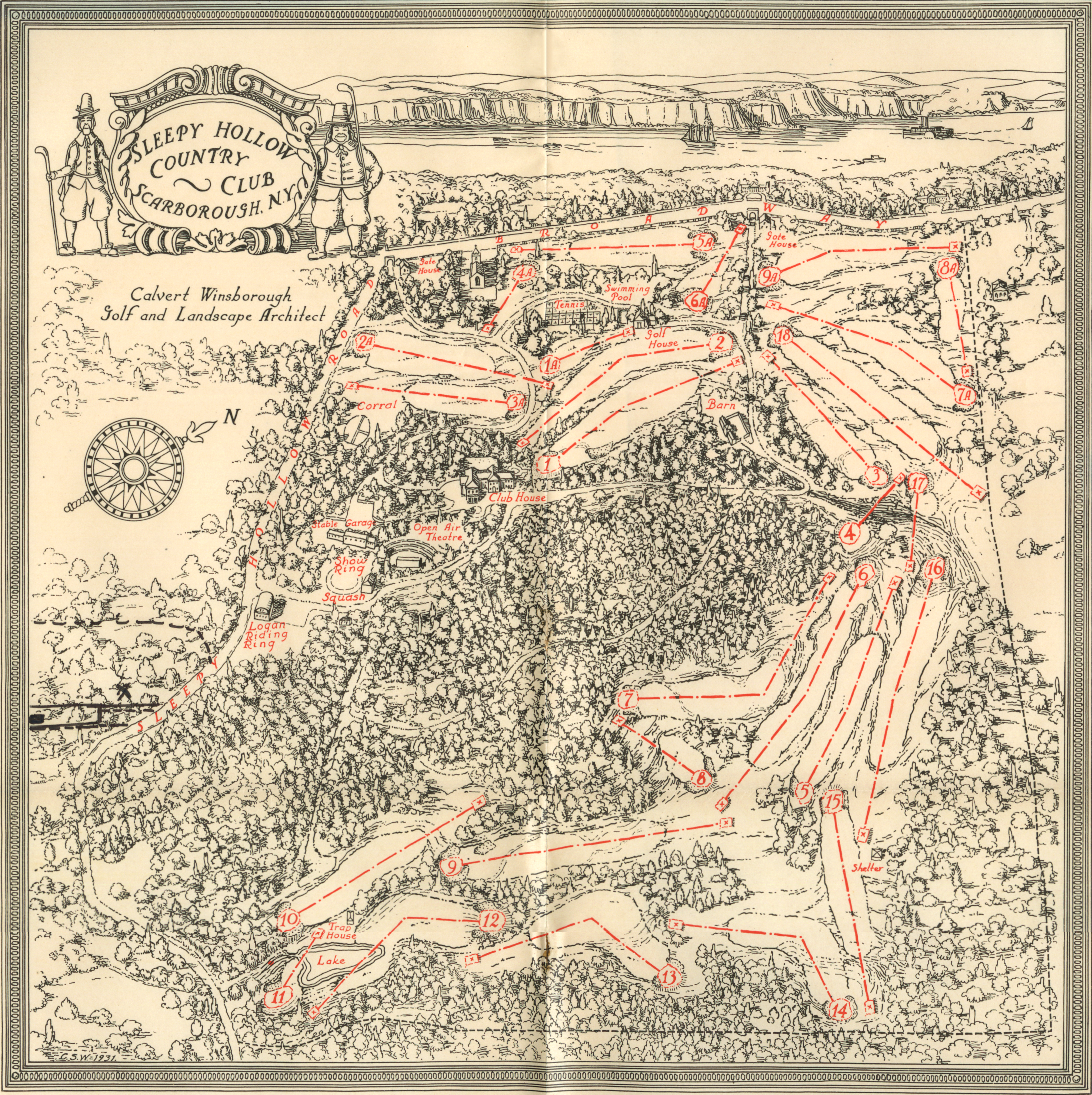 Insert of The Sleepy Hollow of Today, a book published without copyright notice, 1931. Edit of File:SHCC map.png.